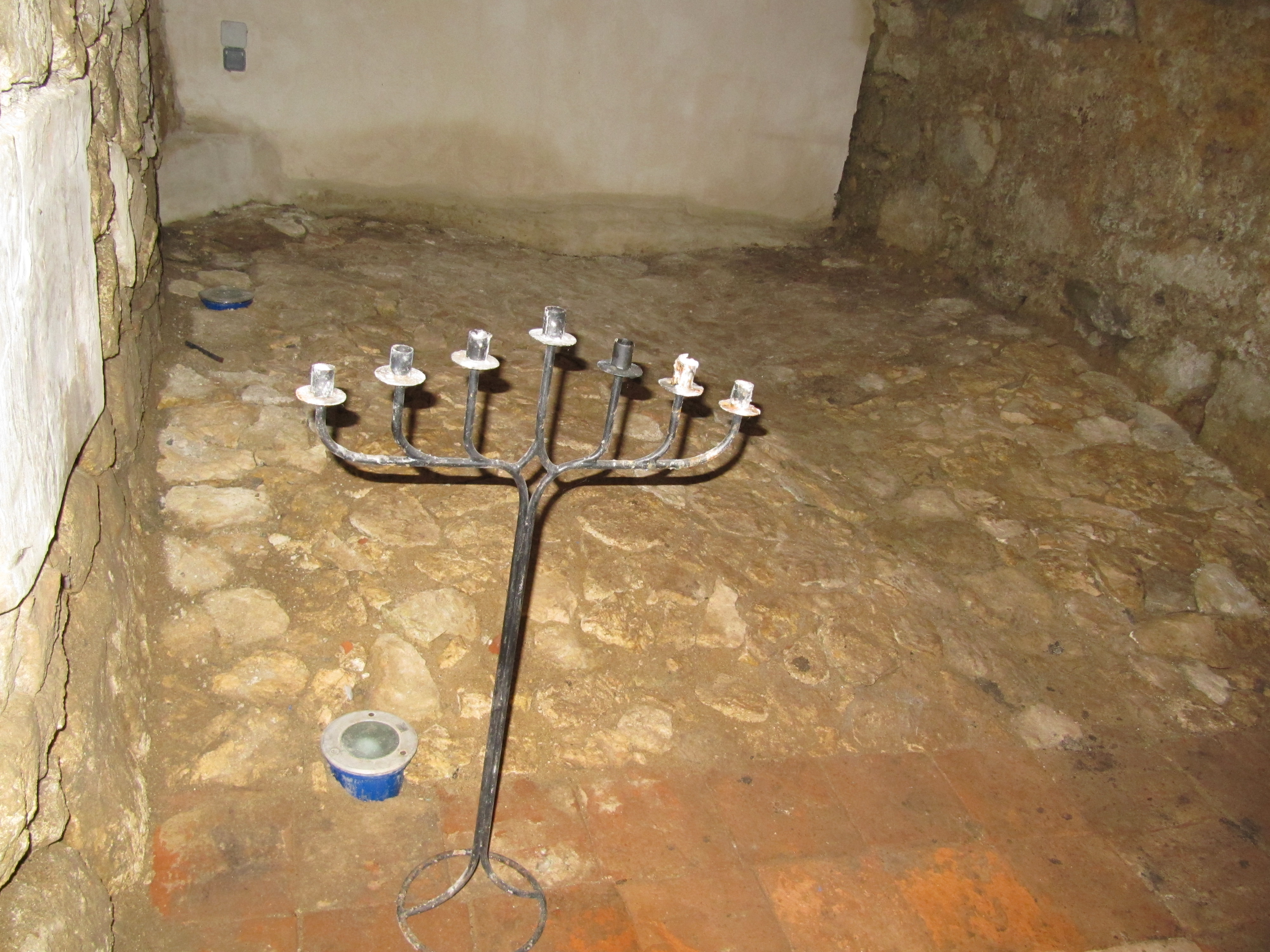 Mikulov in Břeclav District, Czech Republic. The interior of the mikveh ritual Jewish bath. The remains of a mikveh from the turn of 18th and 19th century discovered in 2004 during an archaeological survey at the former site of the Square Lázeňské náměstí in the Jewish Quarter in Mikulov.